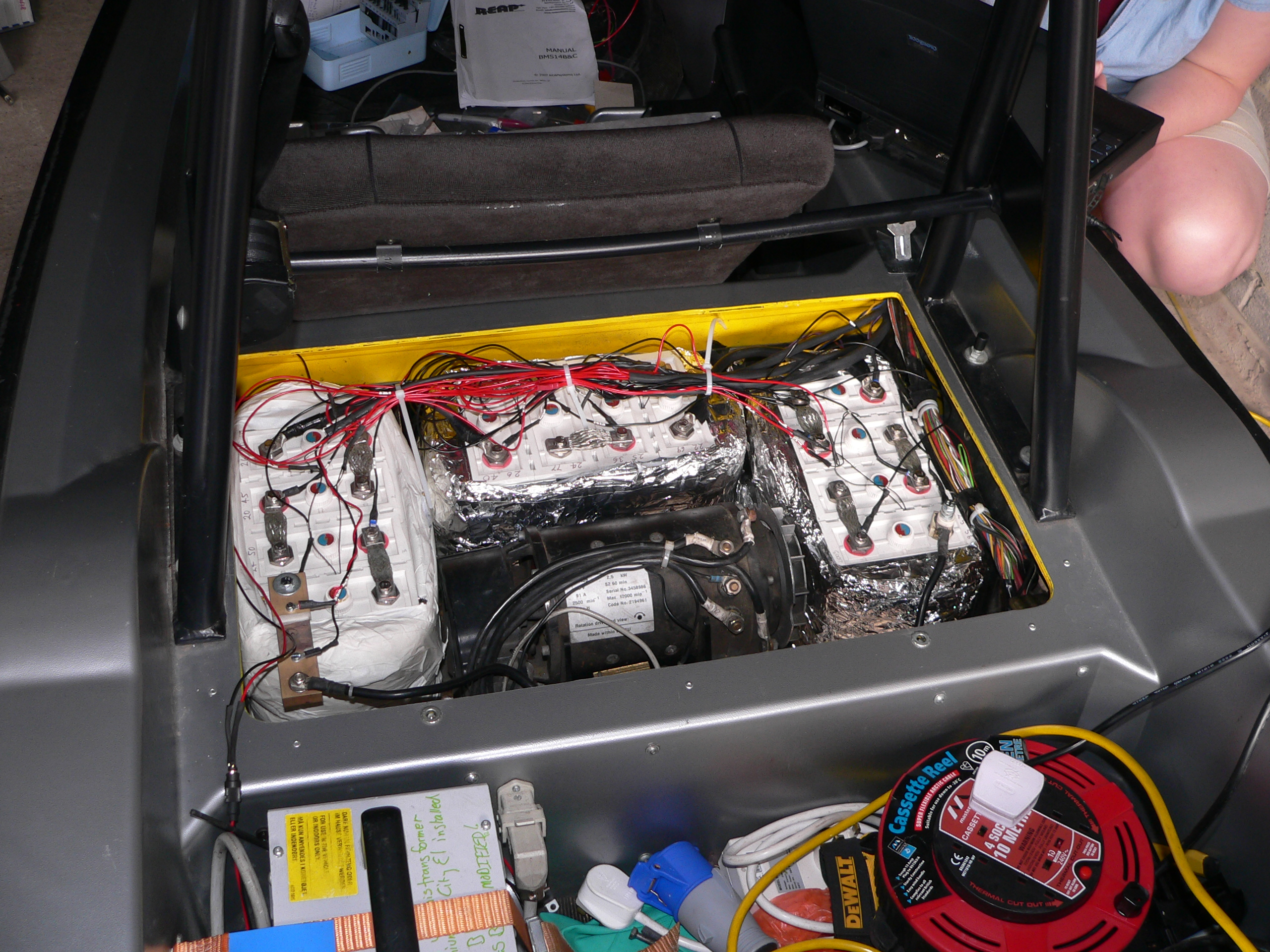 My own photograph of my own conversion to Lithium Ion batteries.